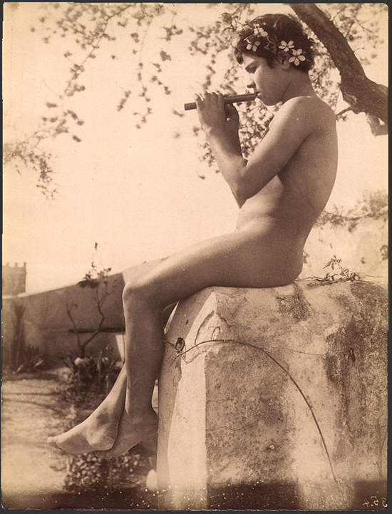 Wilhelm von Gloeden (1856–1931), "Sicilian boy". Catalogue number: 354. These pictures were used in 1896 by Hans Christiansen (1866–1945) to illustrate a cover for German magazine Jugend.